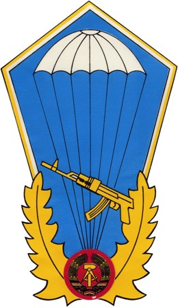 . Corps badge of the National People's Army parachute troops "40th Air Assault Regiment” until 1990.